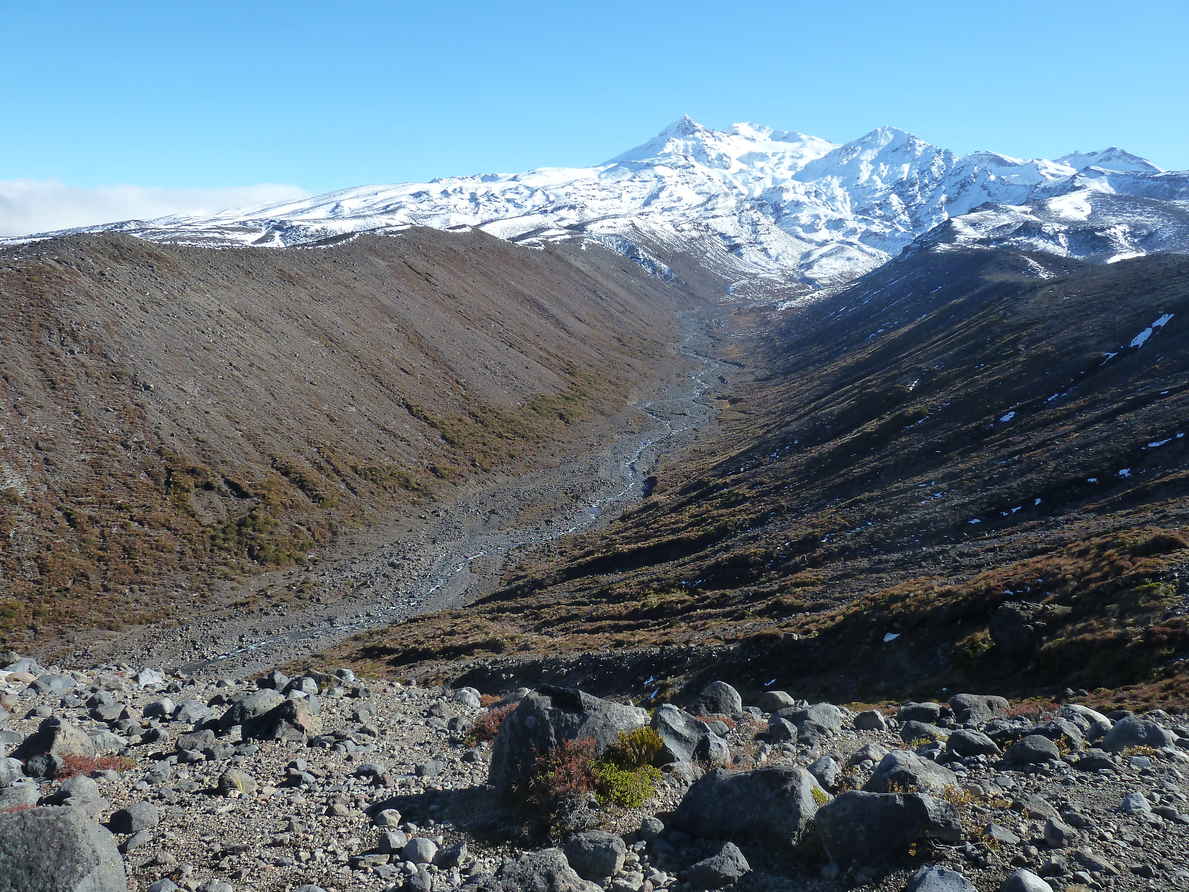 A glaciated valley on southeastern Mt. Ruapehu